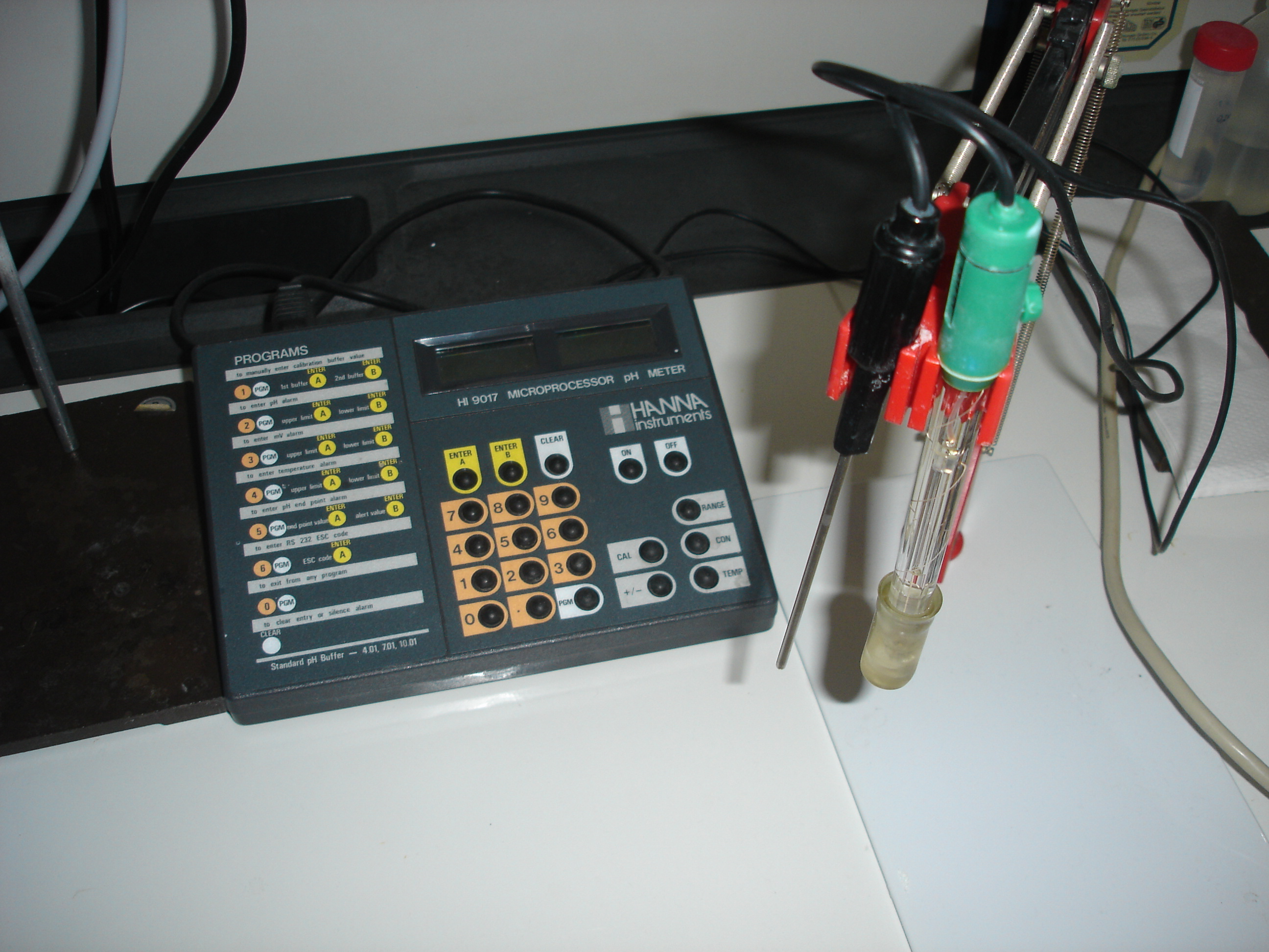 pH meter. Hanna Instruments HI 9017.